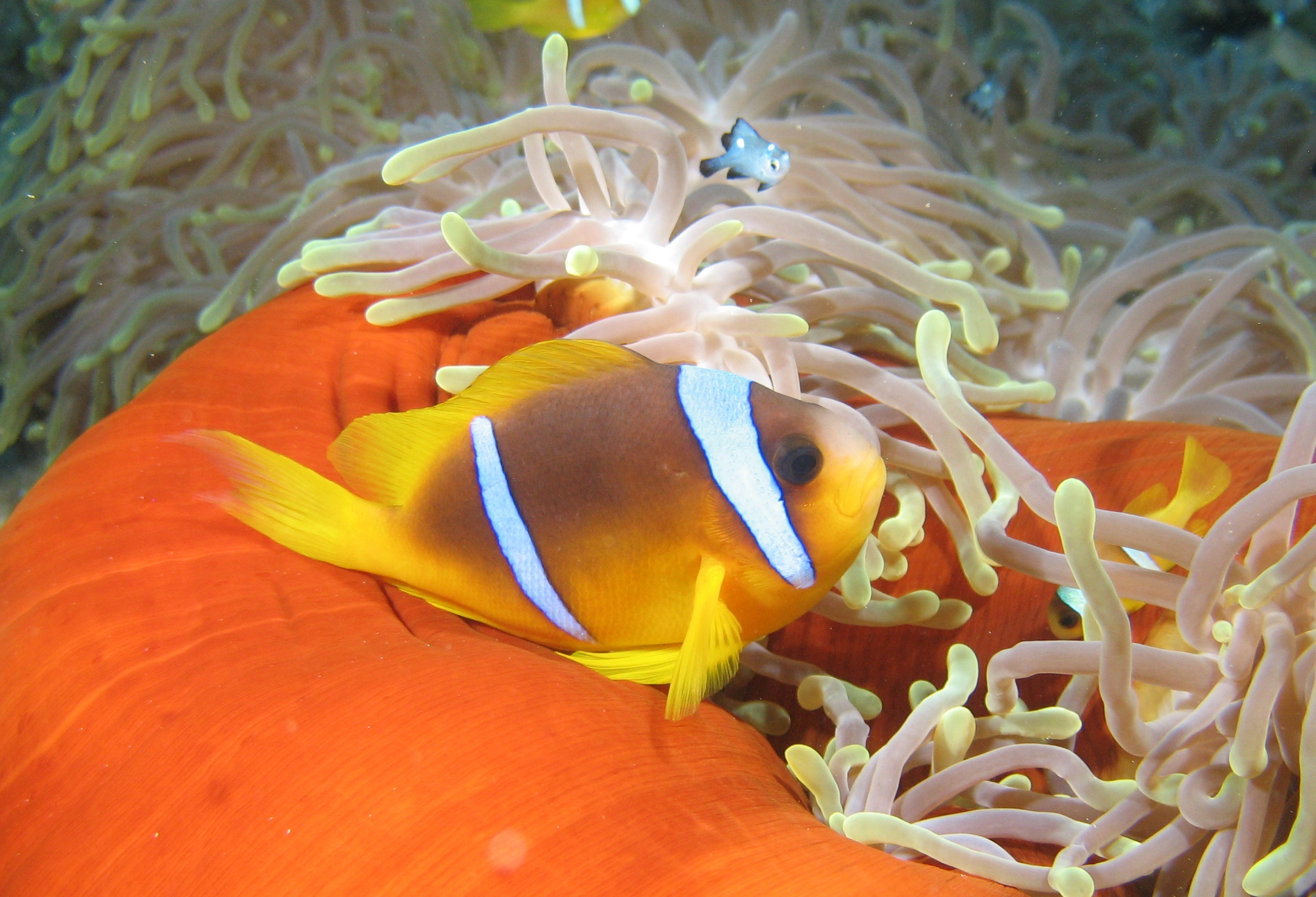 Red Sea Clownfish aka. Two-banded Anemonefish (Amphiprion bicinctus) near Marsa Alam, Egypt.